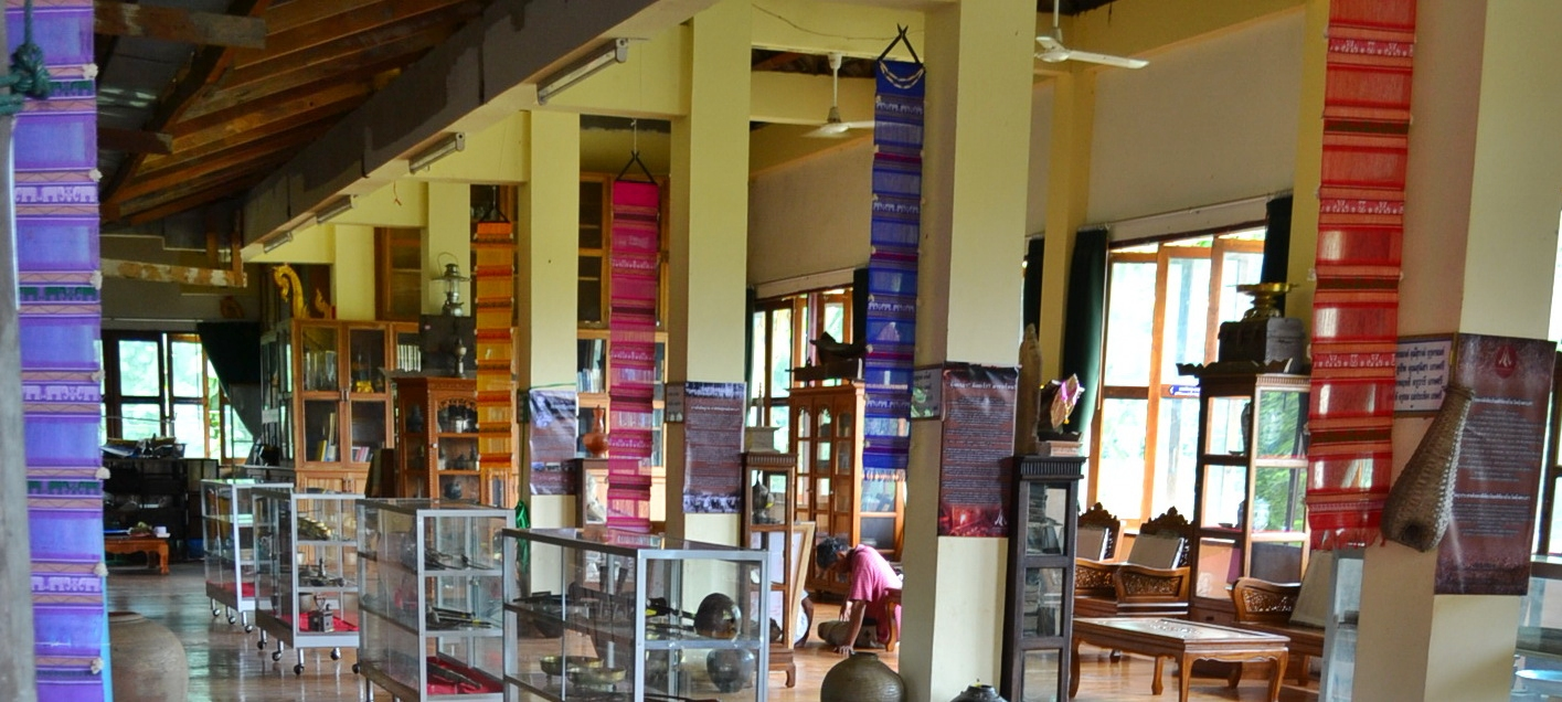 Wat Kungtapao Local Museum. at Wat Khung Taphao, Ban Khung Taphao, Khung Taphao subdistrict, Mueang Uttaradit, Uttaradit Province, Thailand.) on December 2, 2012.